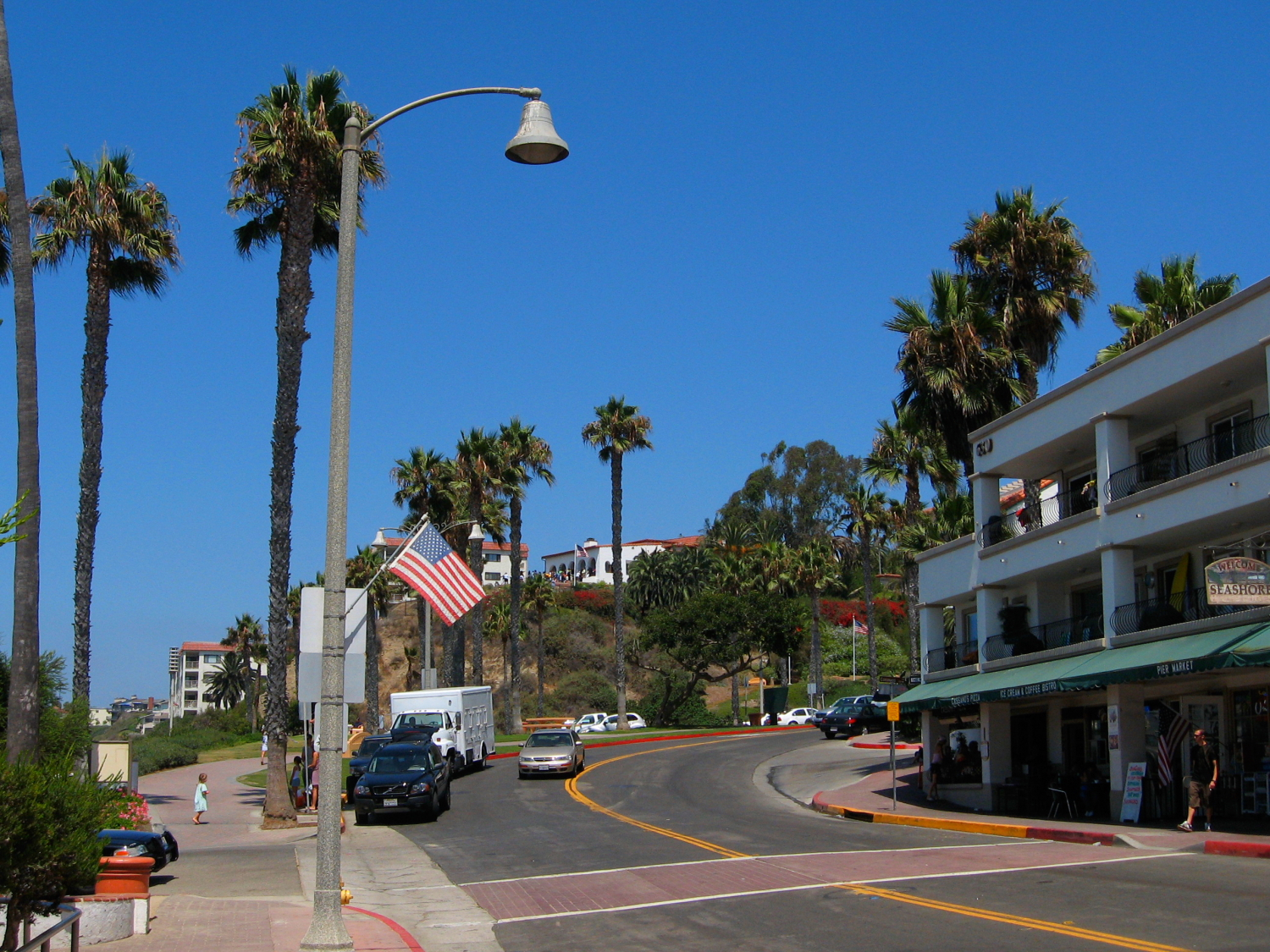 San Clemente, California.